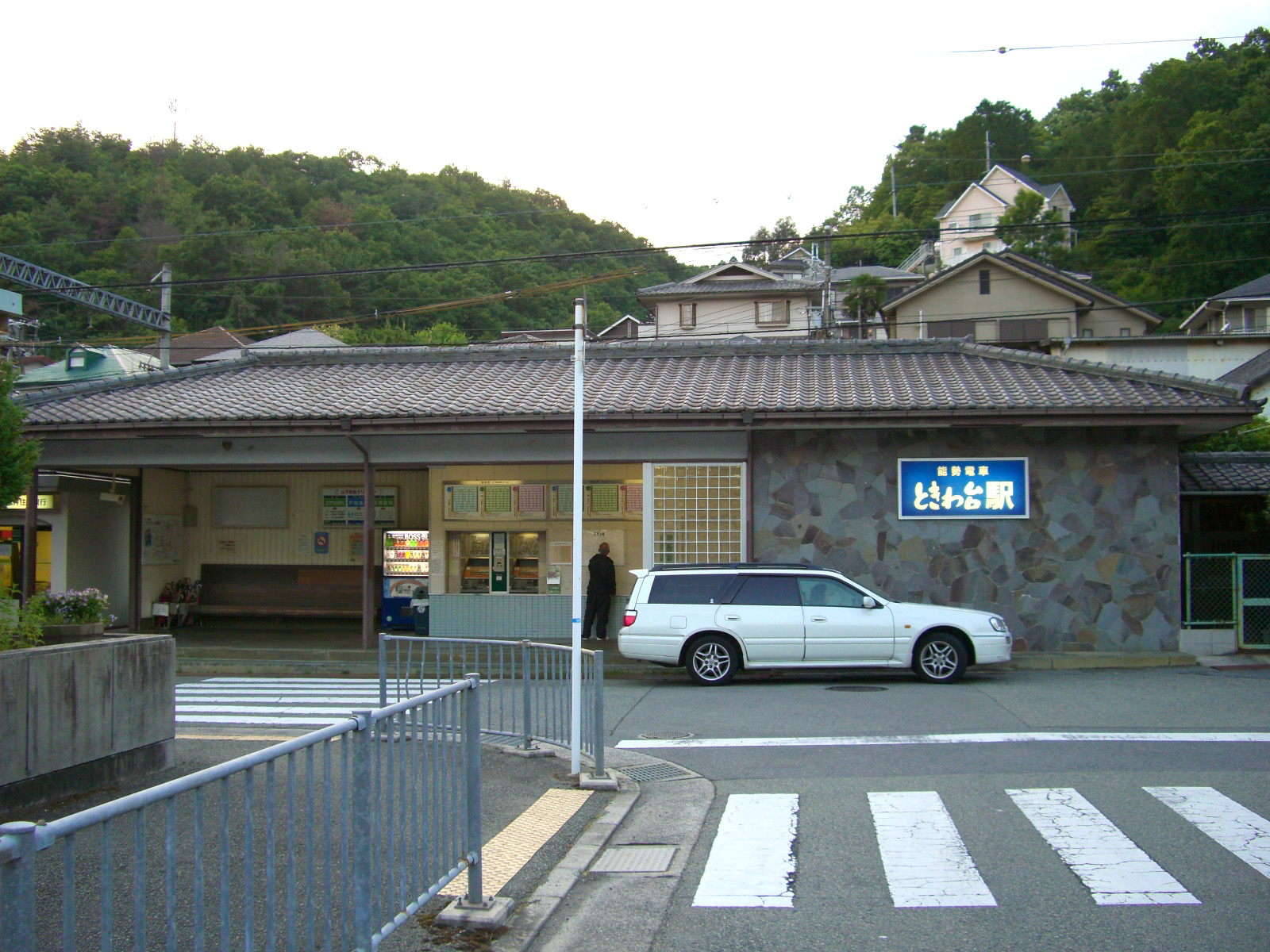 Nose Railway Myōken Line Tokiwadai Station Building